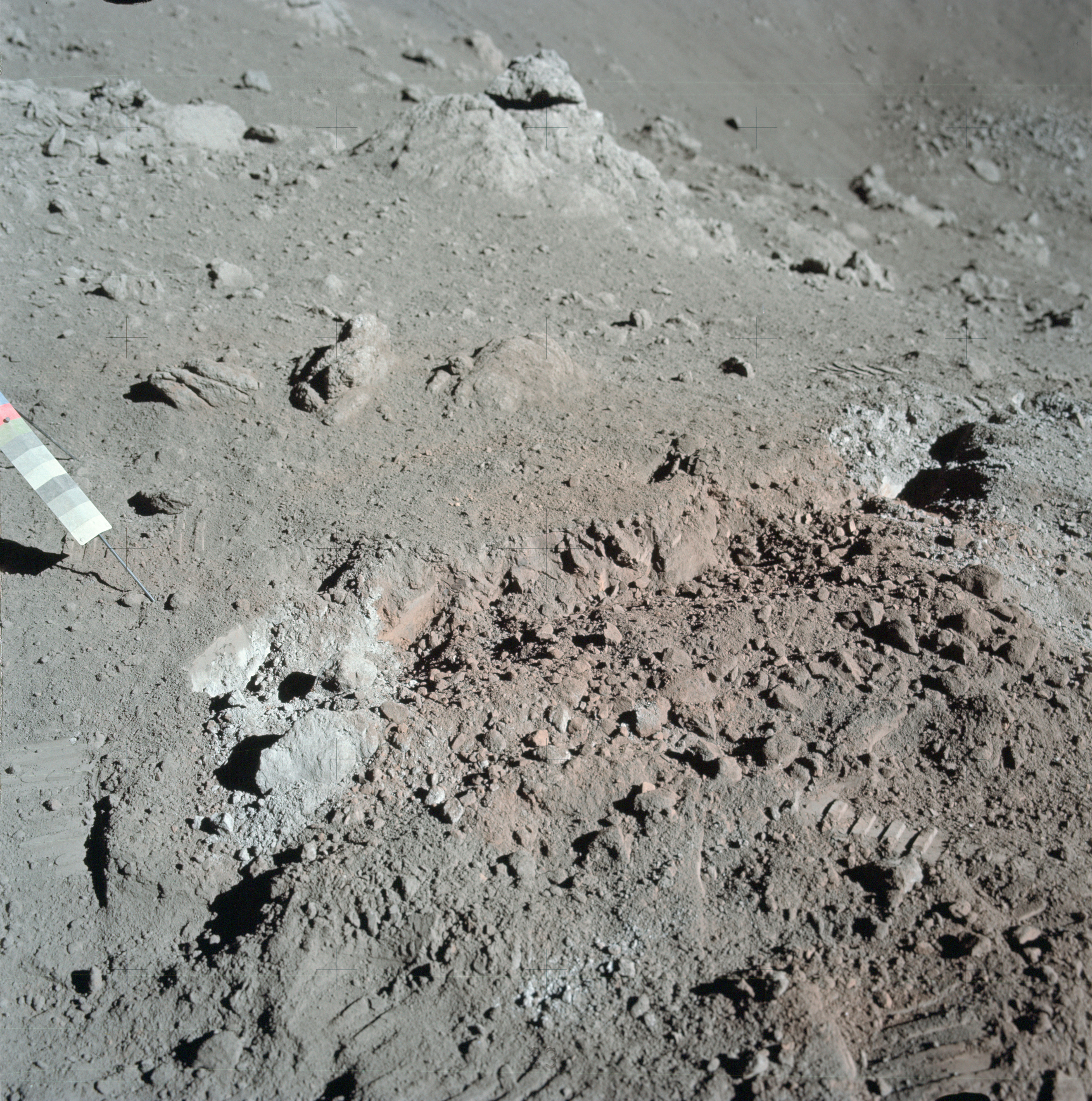 Close-up of the orange soil discovered on the Apollo 17 mission in 1972. The color is caused by microscopic glass beads created by volcanic processes earlier in the Moon's history. This is NASA photo AS17-137-20986, File:Orange Soil Discovery - GPN-2000-001152.jpg .